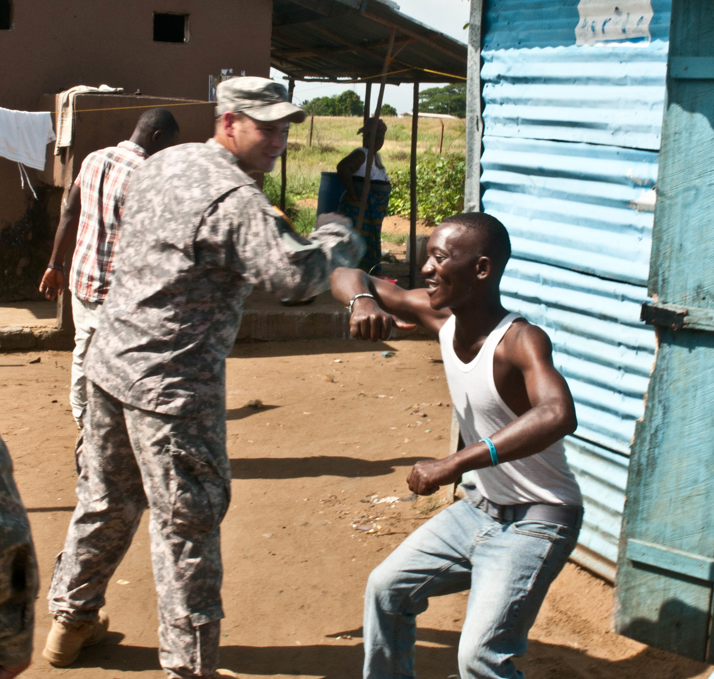 Capt. Will Wardwell, left, a team leader for the 82nd Civil Affairs Unit from Fort Stewart, Ga., “shakes hands” with a resident Nov. 22, 2014, in the village of Daywonkon, Liberia. Wardwell is a native of San Antonio, Texas. To help prevent the spread of disease, the elbow bump has become a common greeting in the area. Operation United Assistance is a Department of Defense operation in Liberia to provide logistics, training and engineering support to U.S. Agency for International Development-led efforts to contain the Ebola virus outbreak in western Africa. (U.S. Army photo by Capt. Eric Hudson, Joint Forces Command – United Assistance Public Affairs/RELEASED)